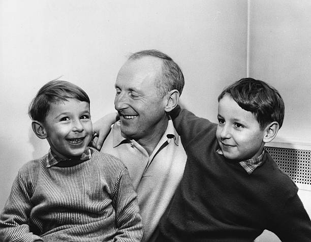 The French singer and actor Bourvil holding his children Philippe and Dominique Raimbourg. 1959 (Photo by Angelo Cozzi/Mondadori Portfolio via Getty Images)